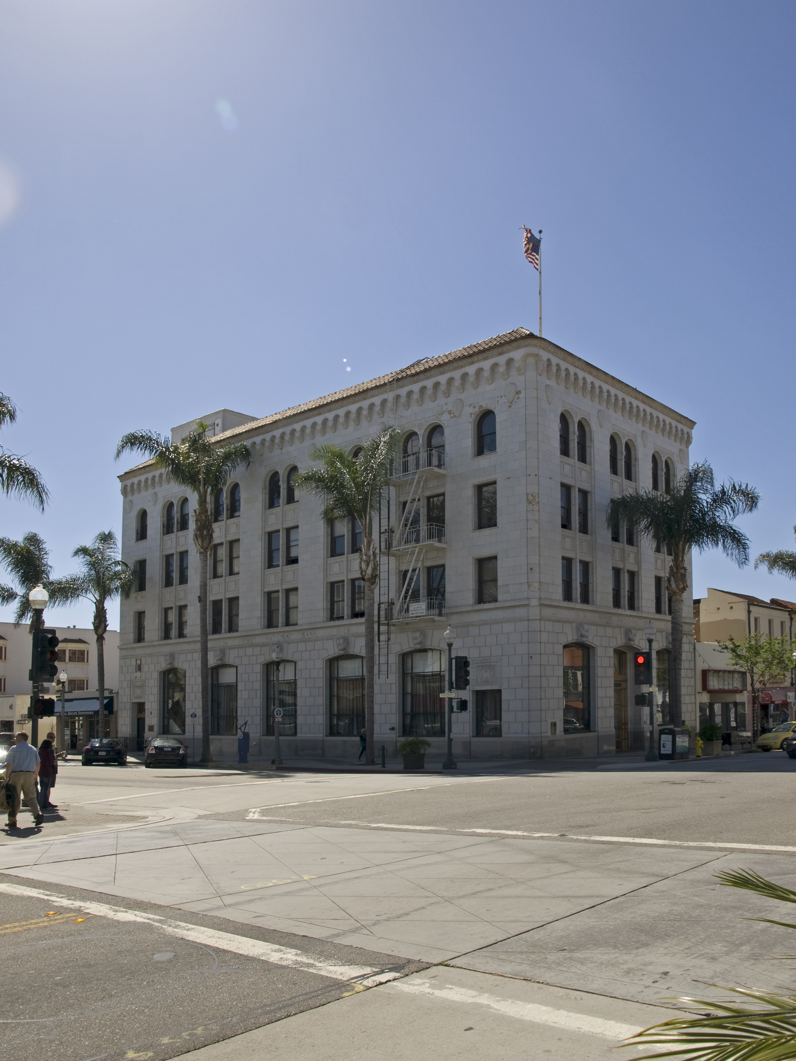 First National Bank Building, 21 S California Street, Ventura. Erle Stanley Gardner worked in the building, in a corner office on the 3rd floor. The office suite would later be known by the acronym "ESGS" or Erle Stanley Gardner Suite.